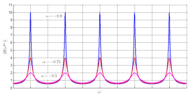 Magnitude response of feedback comb filter for negative values of